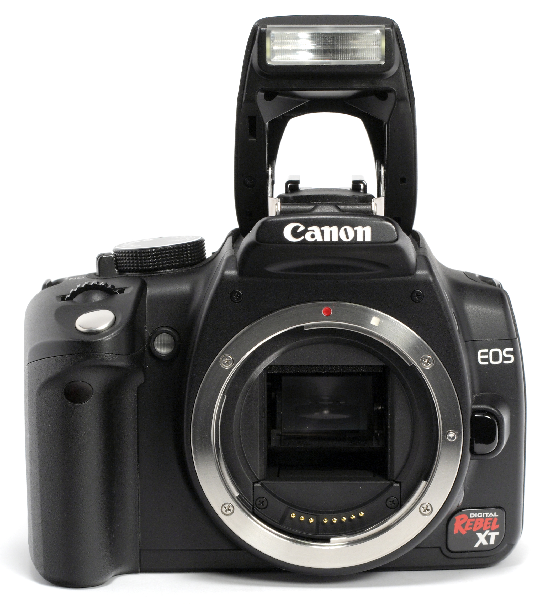 Photo of the Canon EOS Rebel XT Digital, showing mount and pop-up flash.